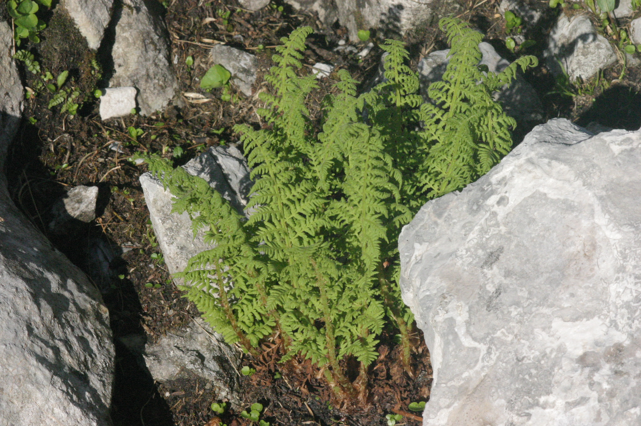 Dryopteris villarii